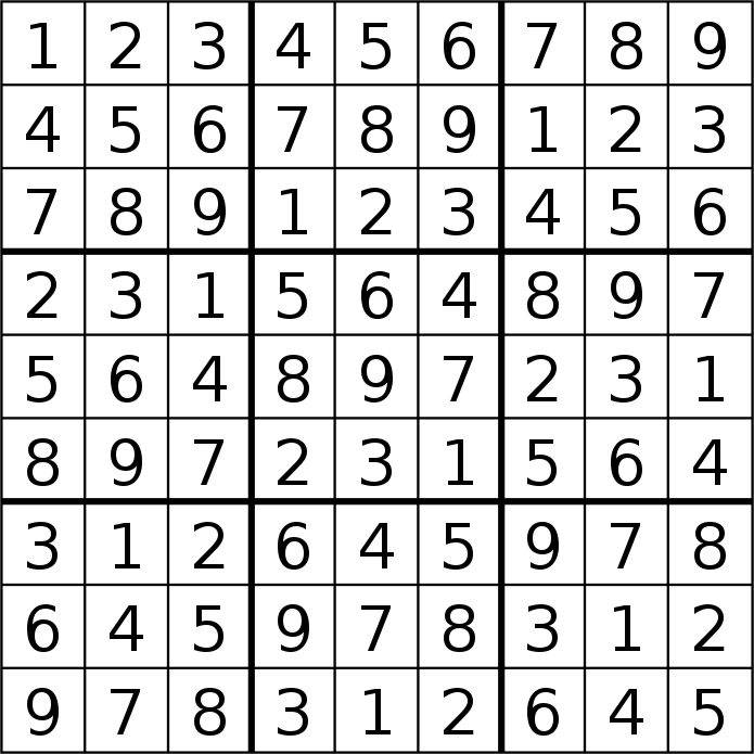 The 9x9 Sudoku solution grid with most non-trivial automorphisms. This image is the same as "Sudoku Most Canonical grid.svg" by Dobrichev but has been trimmed to remove the transparent border to match the style of other Sudoku images.